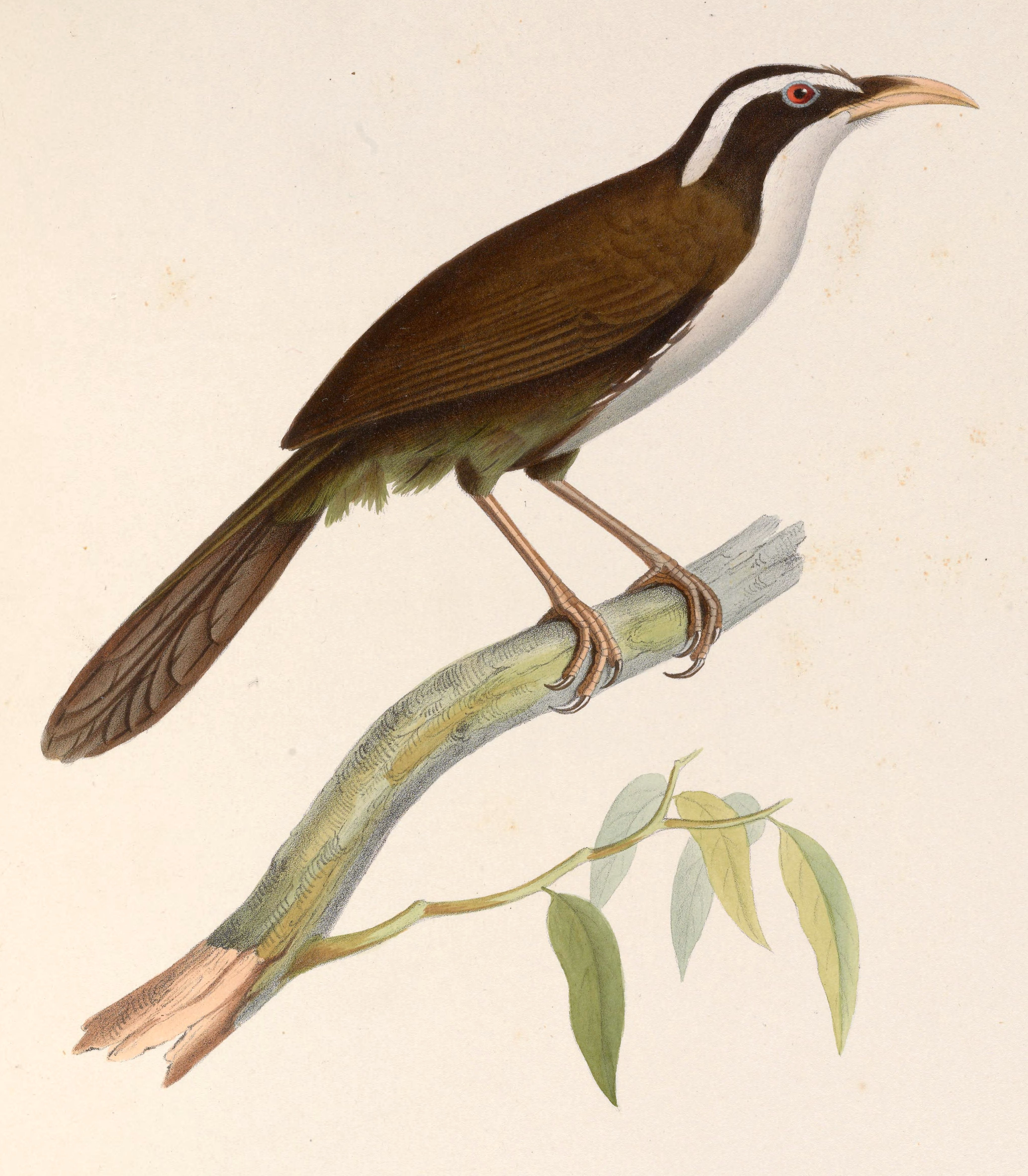 Pomatorhinus horsfieldii = Pomatorhinus horsfieldii (Indian Scimitar-babbler)